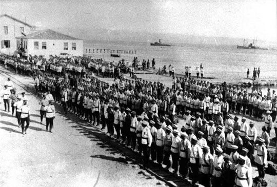 Gallipoli and Russian White Army